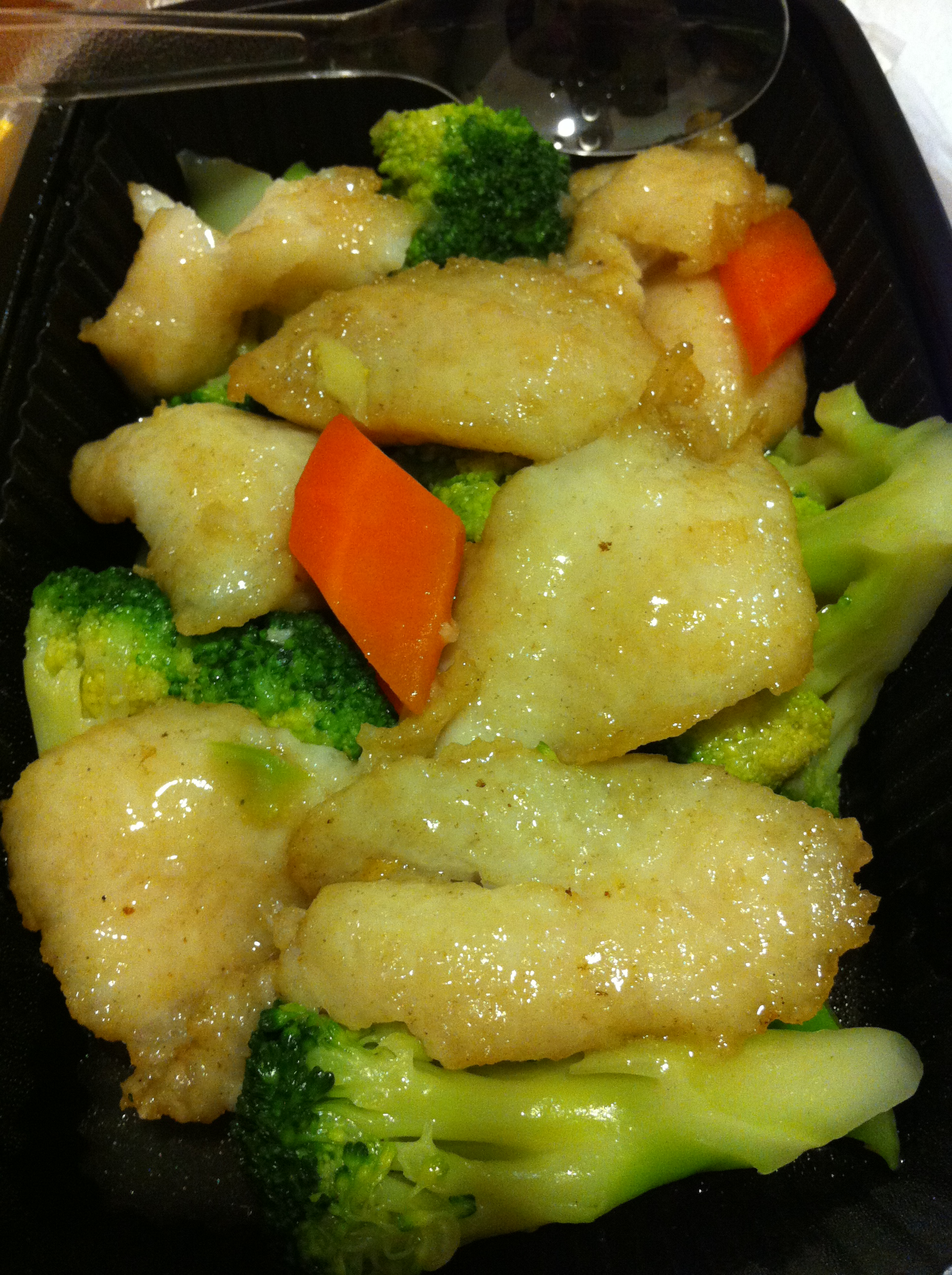 Fairwood (restaurant) food products, Hong Kong